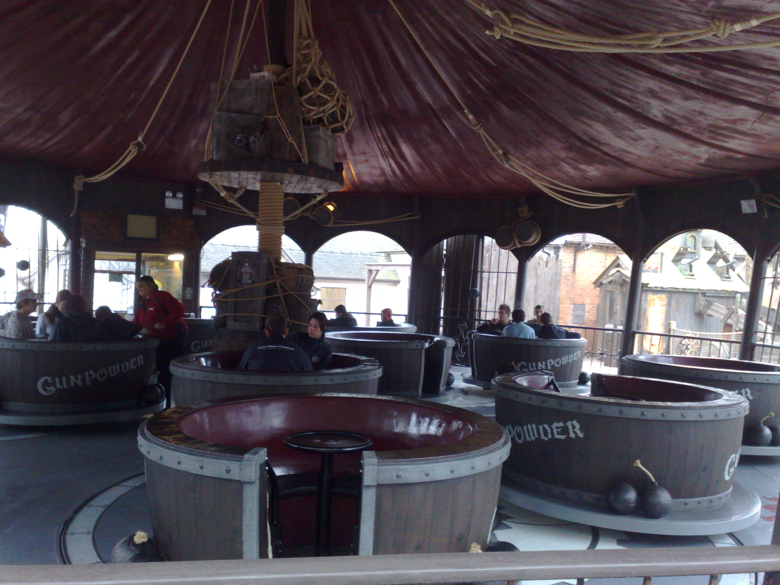 Maurauders Mayhem @ Mutiny Bay